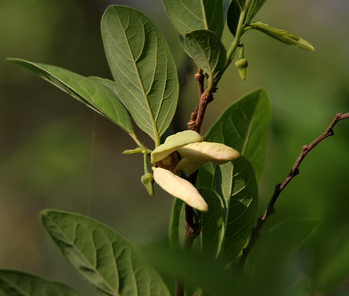 Custard-apple, sugar-apple, sweetsop, sitaphal, Sita's fruit, shareefah, aataa or Rahmapfel Annona squamosa in Mahavir Harina Vanasthali National Park, Hyderabad, India.